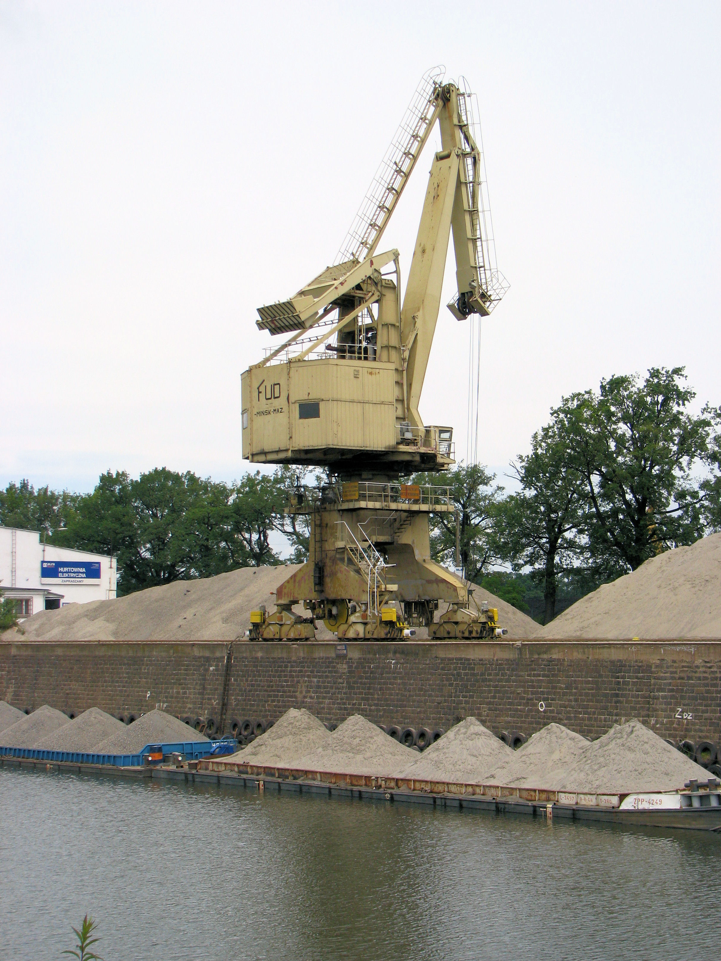 A level luffing crane in riverport on Odra River in Wrocław, Poland